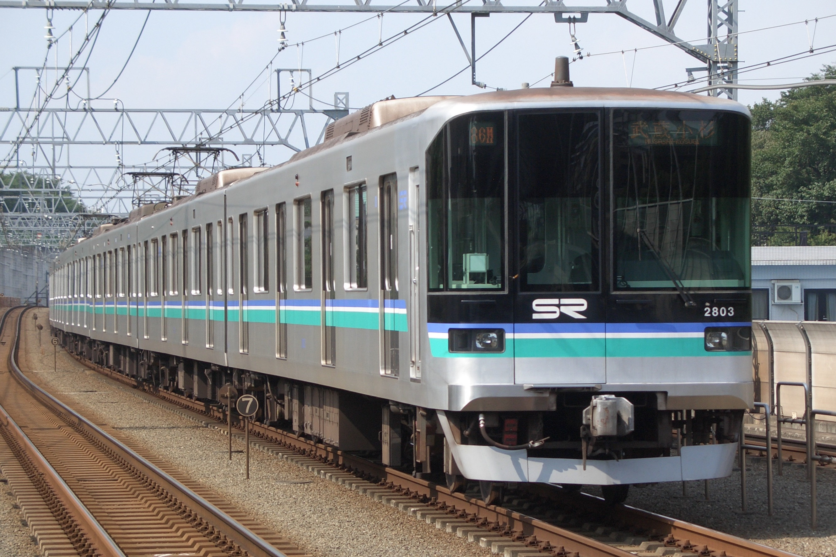 the Saitama Rapid Railway 2000 series train approaching Tamagawa Station on the Tōkyū Meguro Line